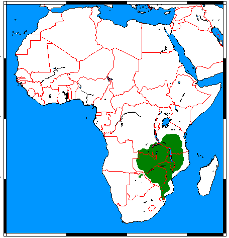 Range map for Meller's Mongoose (Rhynchogale melleri), made by me with help of Map depending on the range map at IUCN red list.